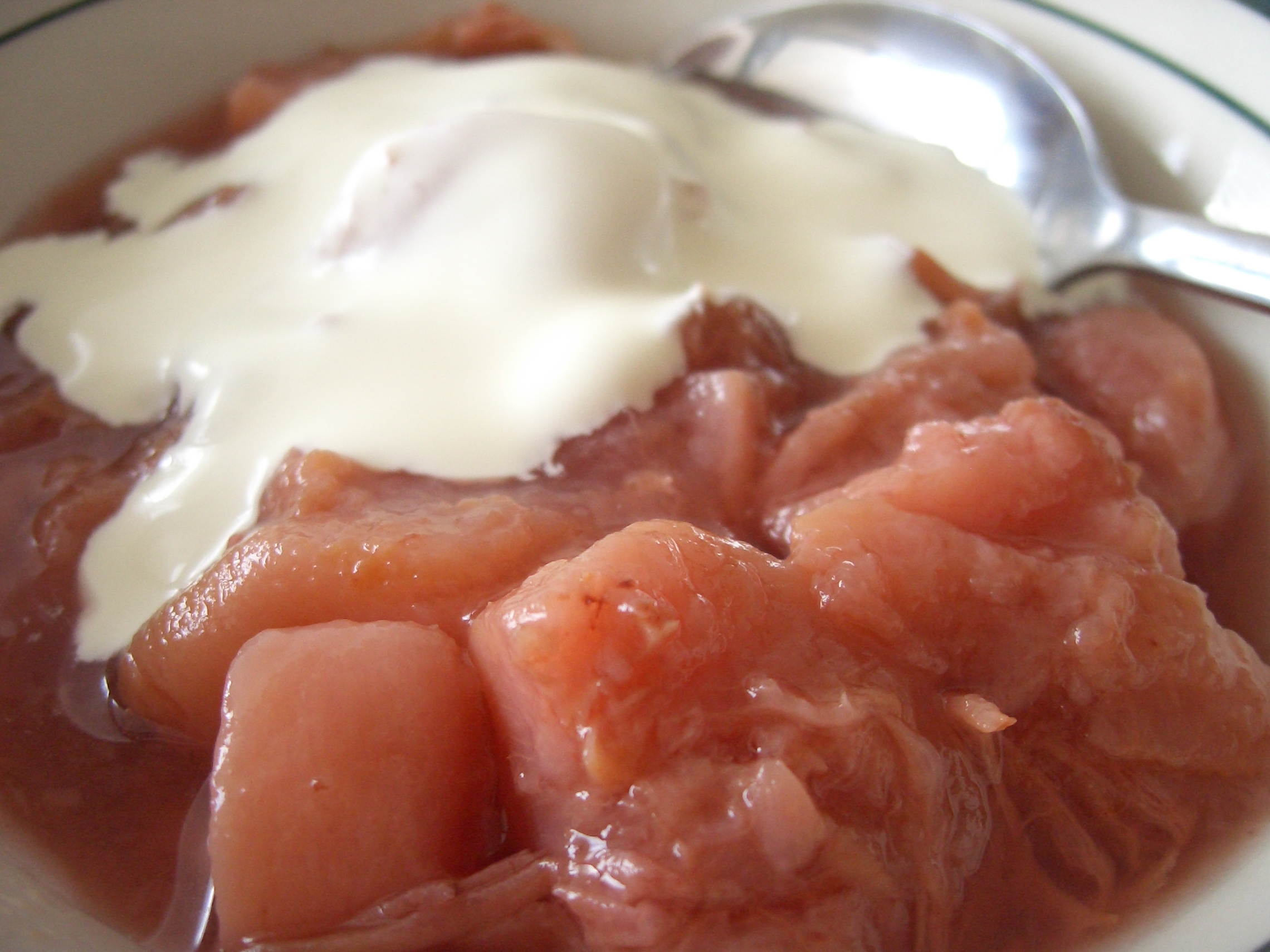 A bowl of stewed nectarines with cream, mm-mmm.